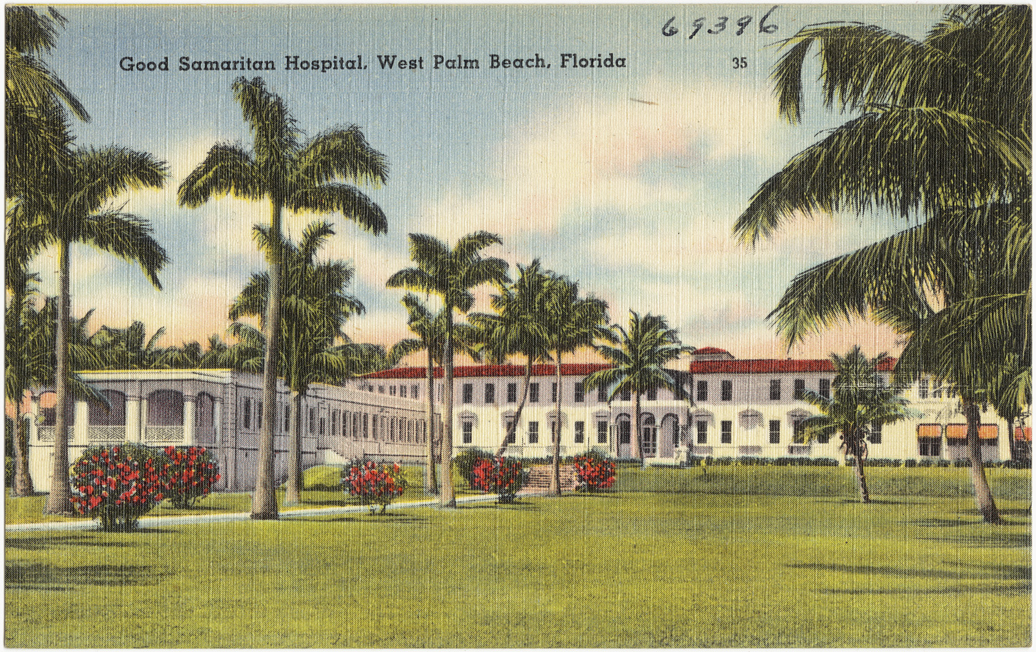 File name: 06_10_009336 Title: Good Samaritan Hospital, West palm Beach, Florida Date issued: 1930 - 1945 (approximate) Physical description: 1 print (postcard) : linen texture, color ; 3 1/2 x 5 1/2 in. Genre: Postcards Subject: Hospitals Notes: Title from item. Collection: The Tichnor Brothers Collection Location: Boston Public Library, Print Department Rights: No known restrictions